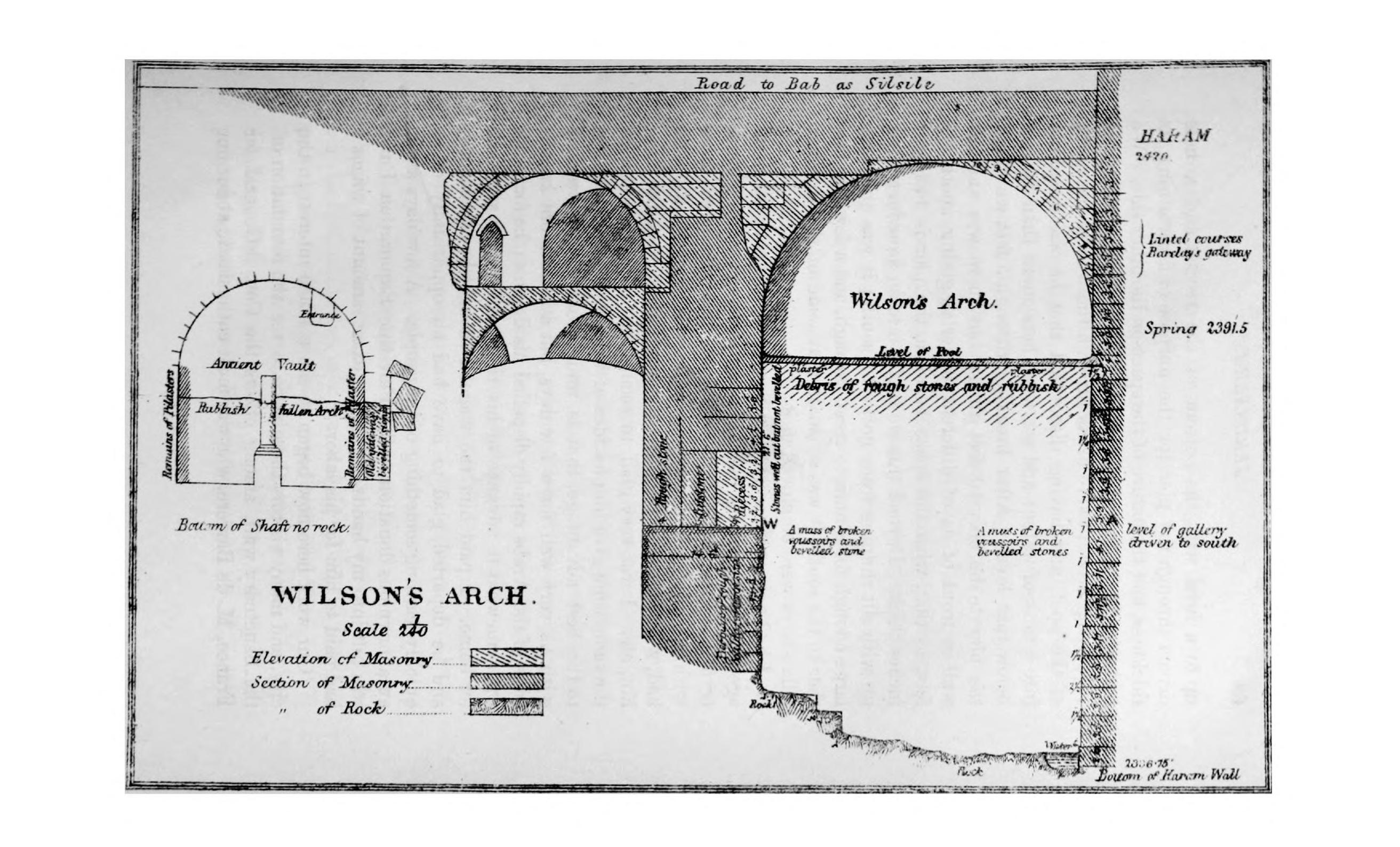 Charles Wilson's 1871 "Recovery of Jerusalem" publication of the Ordnance Survey of Jerusalem